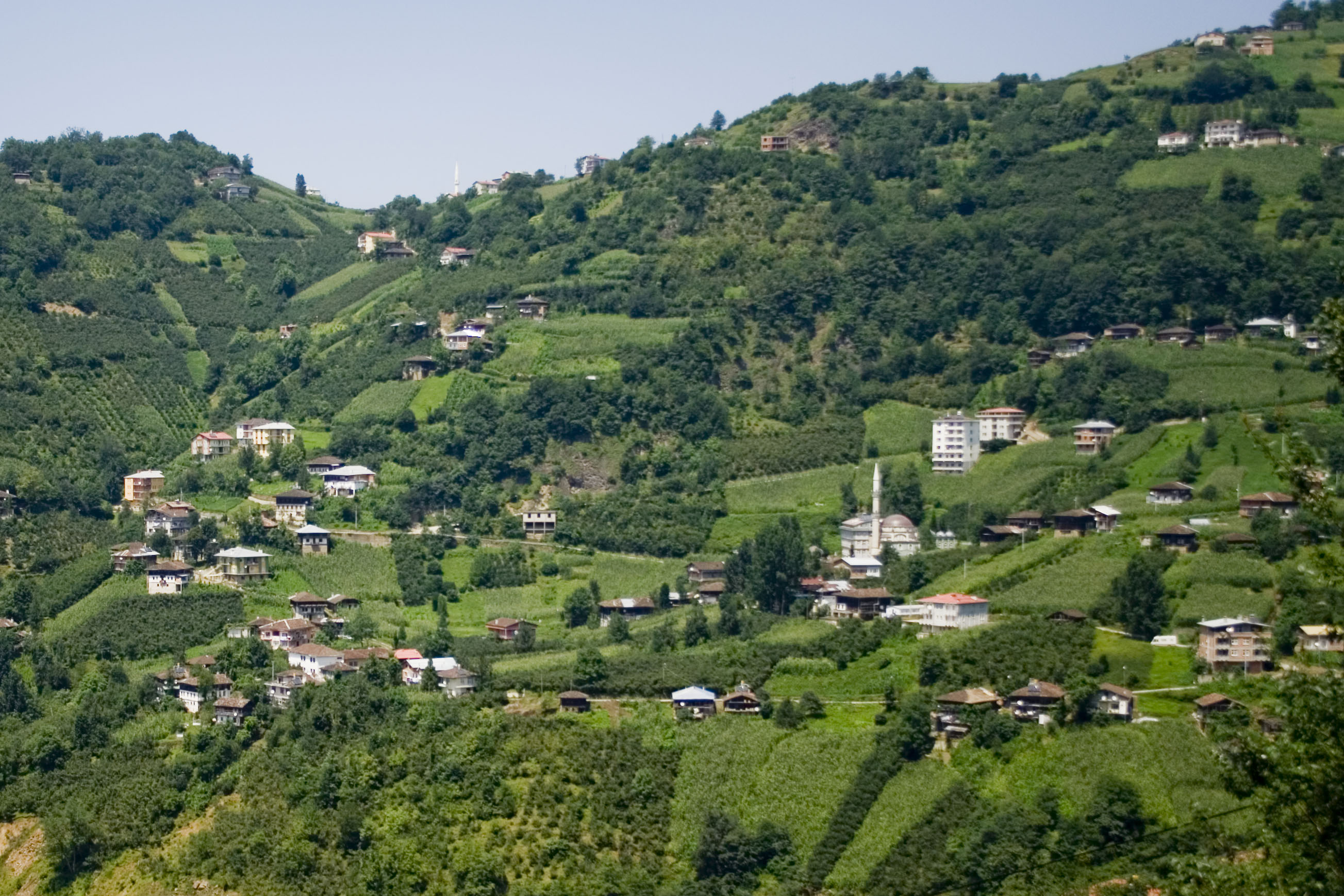 This is a village in the Çaykara district of Trabzon province, Turkey